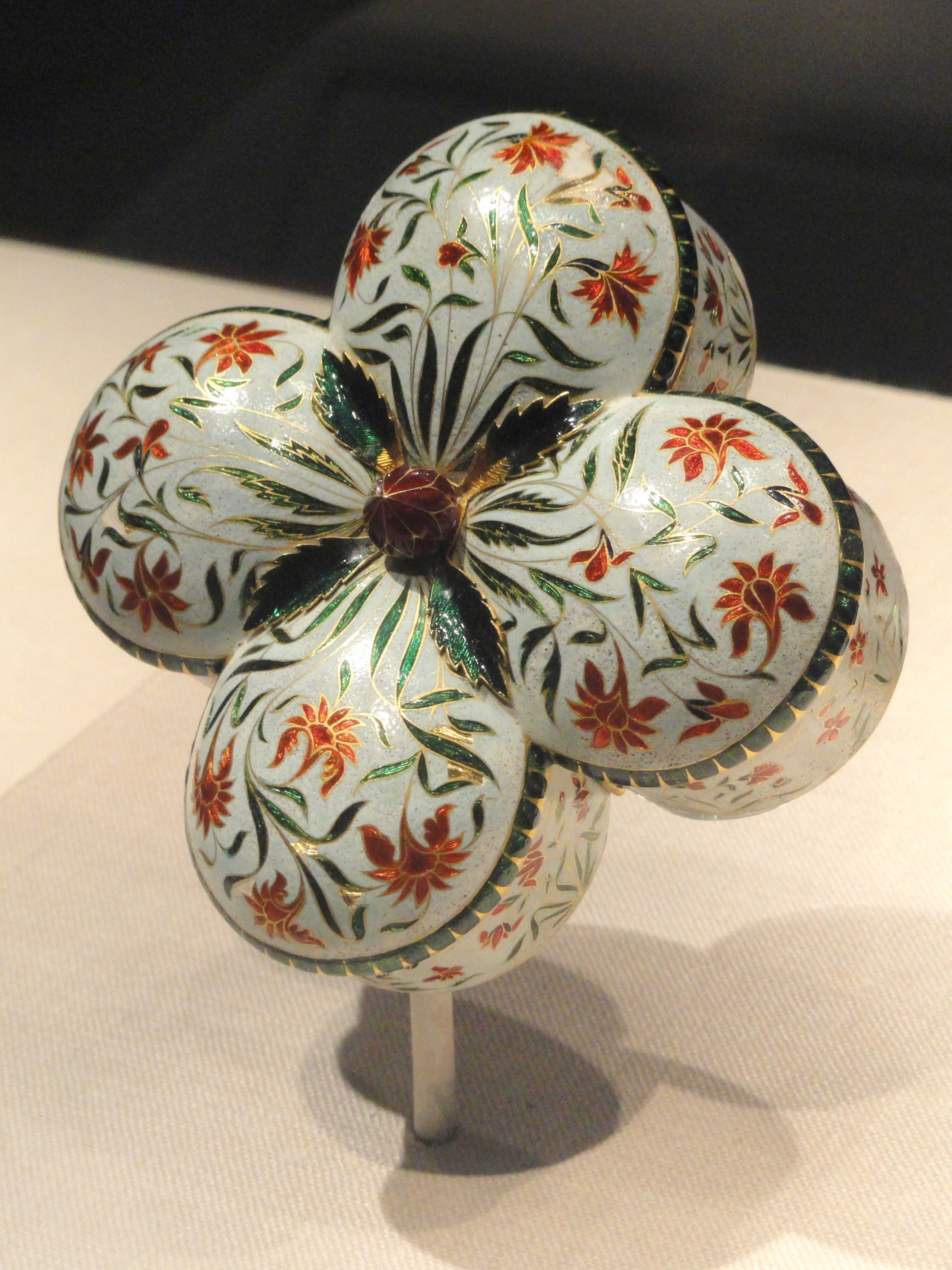 Exhibit in the Freer Gallery of Art, Washington, DC, USA. This artwork is old enough so that it is in the public domain.